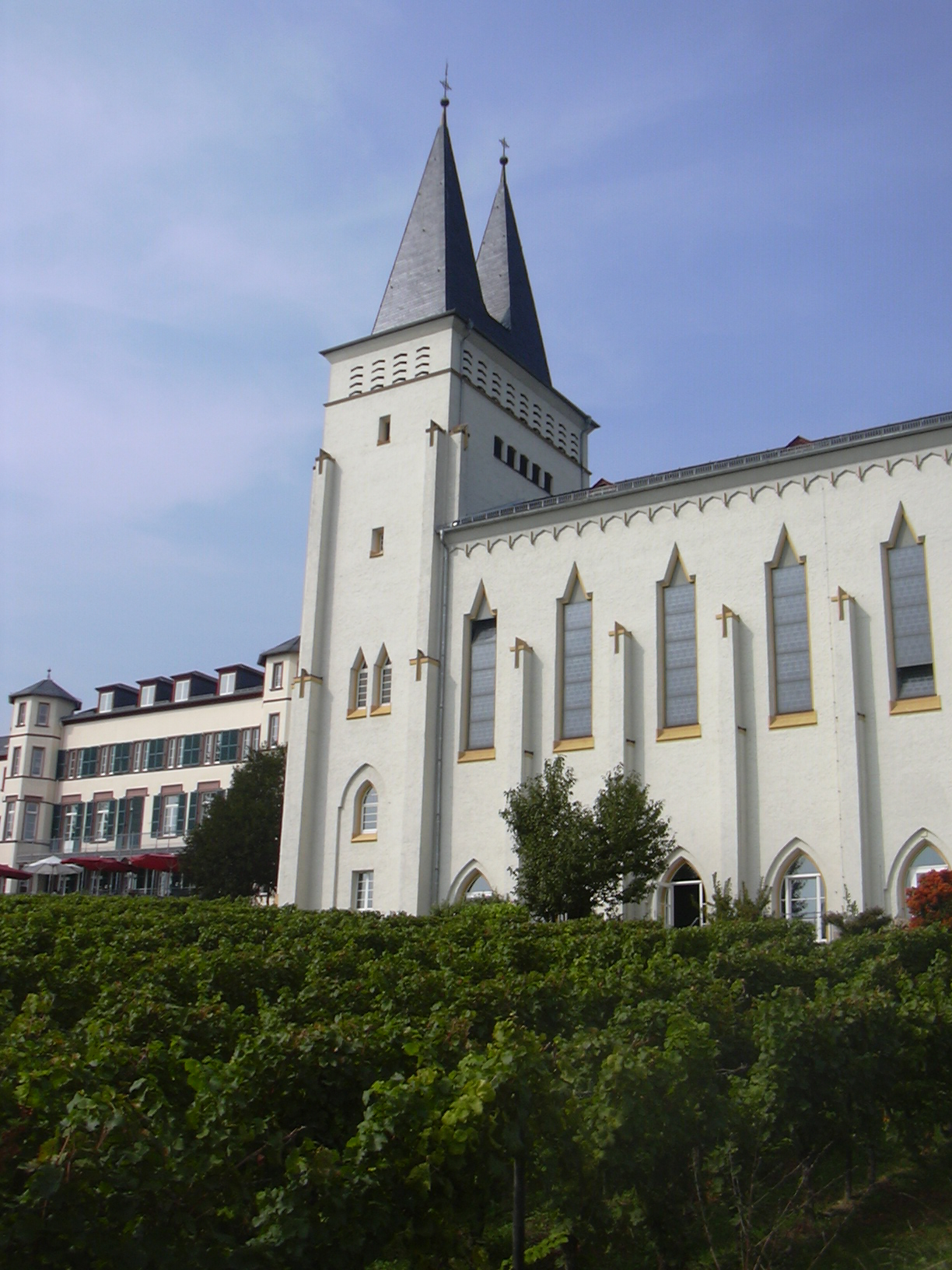 new monastery church (1928), Johannisberg Castle, Rhine Valley, Germany